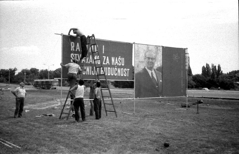 Novi Beograd in 1978. The billboard features the photo of Tito and text "Radimo i stvaramo za našu srećniju budućnost" ("We work and create for our happier future").